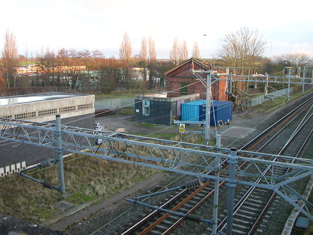 Watford Gap-West Coast Mainline Alongside the railway is the Grand Union Canal (The line of poplars)and beyond that The services on the M1 Motorway.